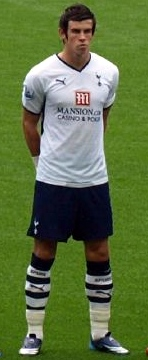 Gareth Bale